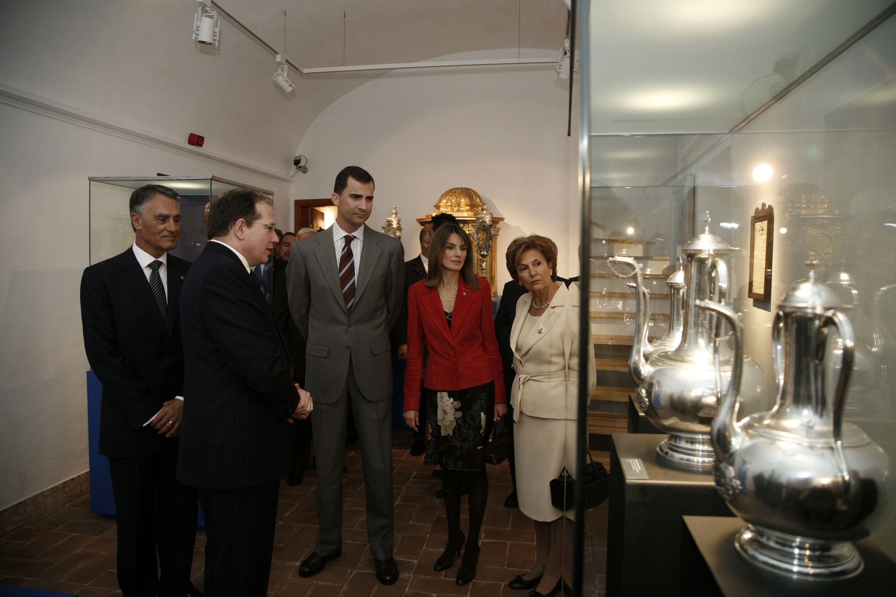 Visita do PR e dos Príncipes de Astúrias a Beja